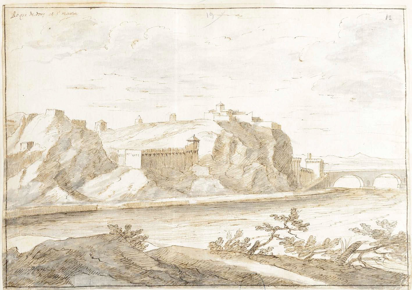 Rocher des Doms and the Fort Saint-Martin in Avignon in the Vaucluse department, southern France. The drawing includes the end of the Saint-Bénézet bridge.